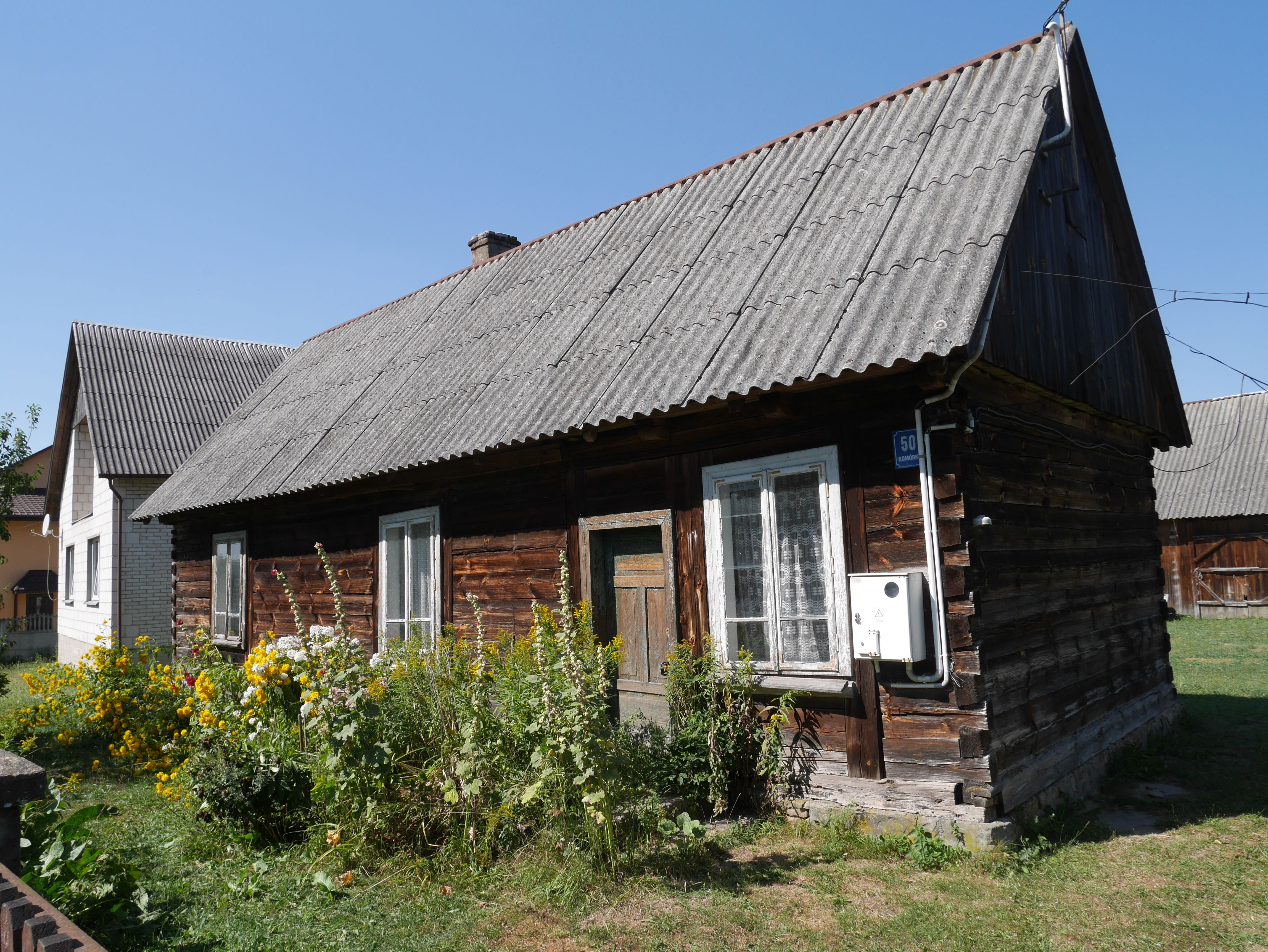 Building in Komórki (gmina Daleszyce)